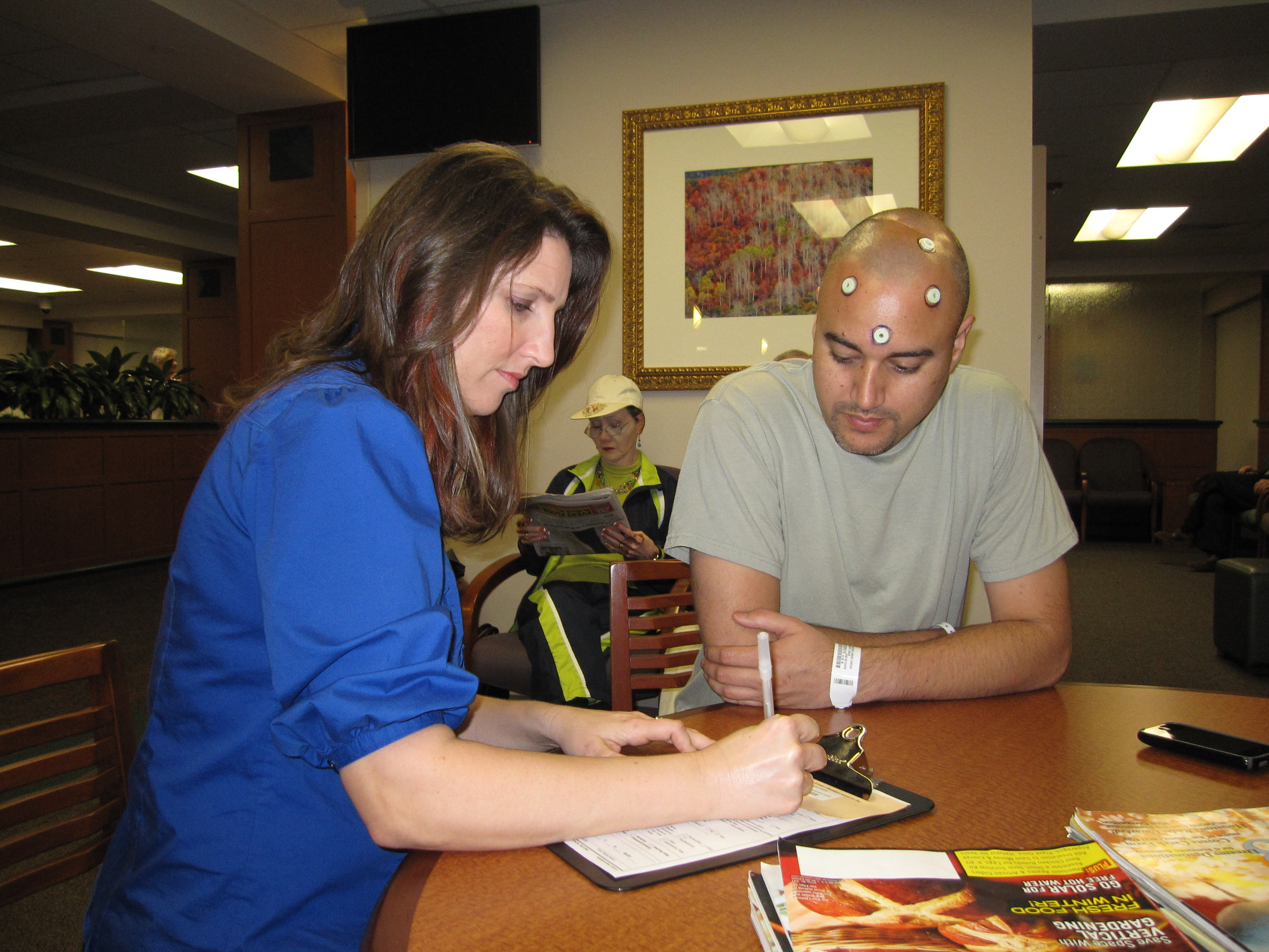 Helping answer the check-in questionnaire.